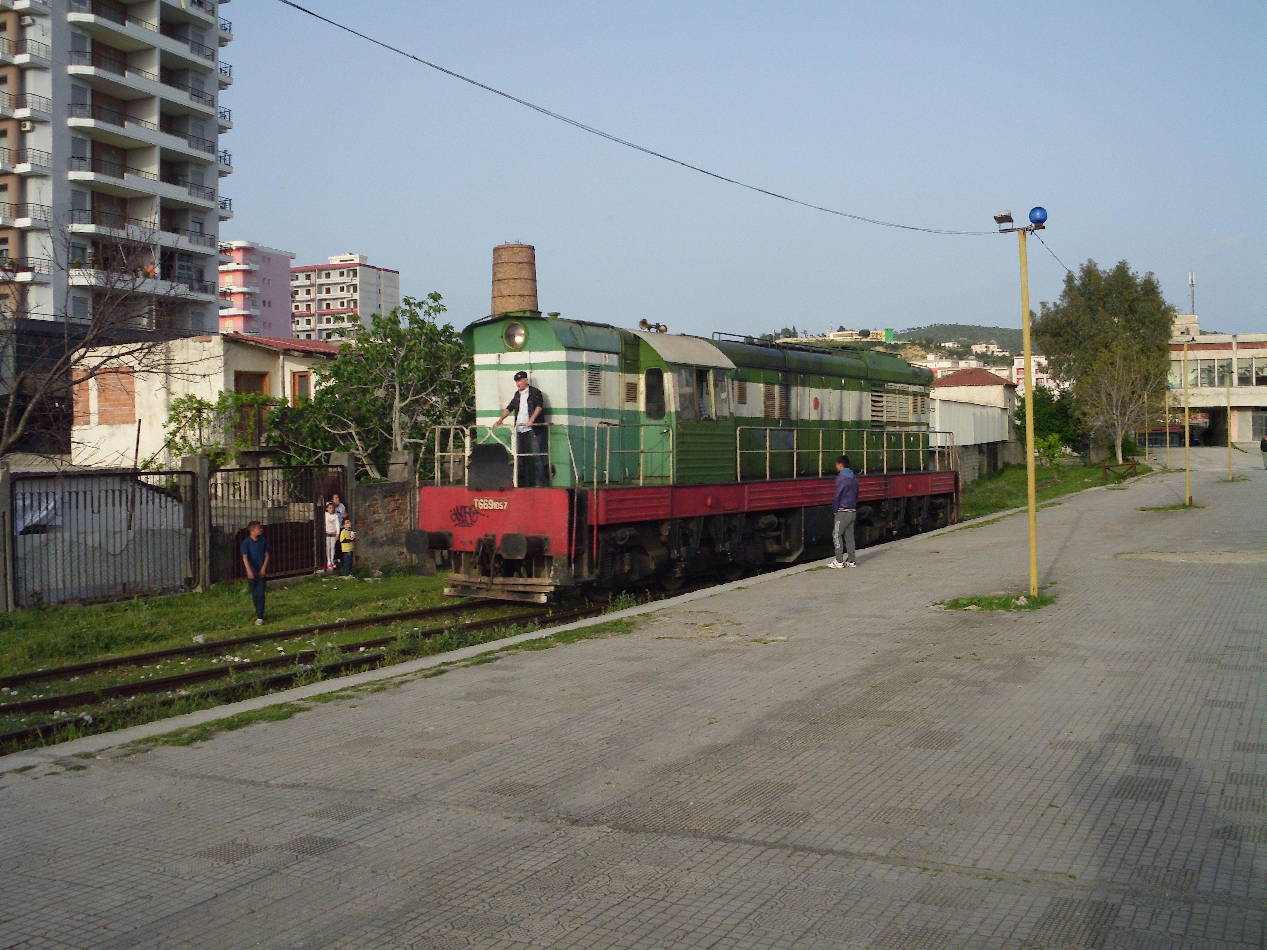 ČKD T-669 diesel engine T669.1057 at a station in Vlorë, Albania